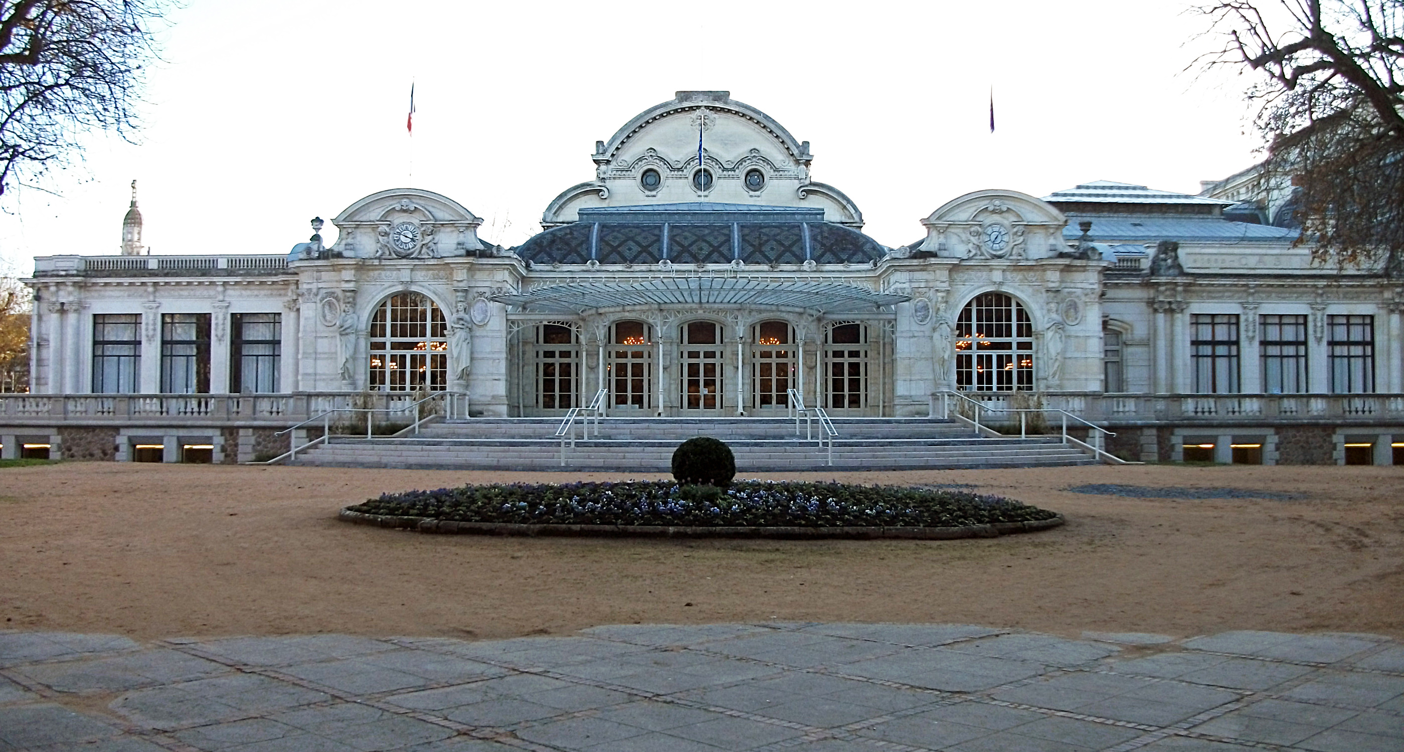 Palais des Congrès-Opéra in Vichy, Allier, Auvergne (Auvergne-Rhône-Alpes), France. [9553]